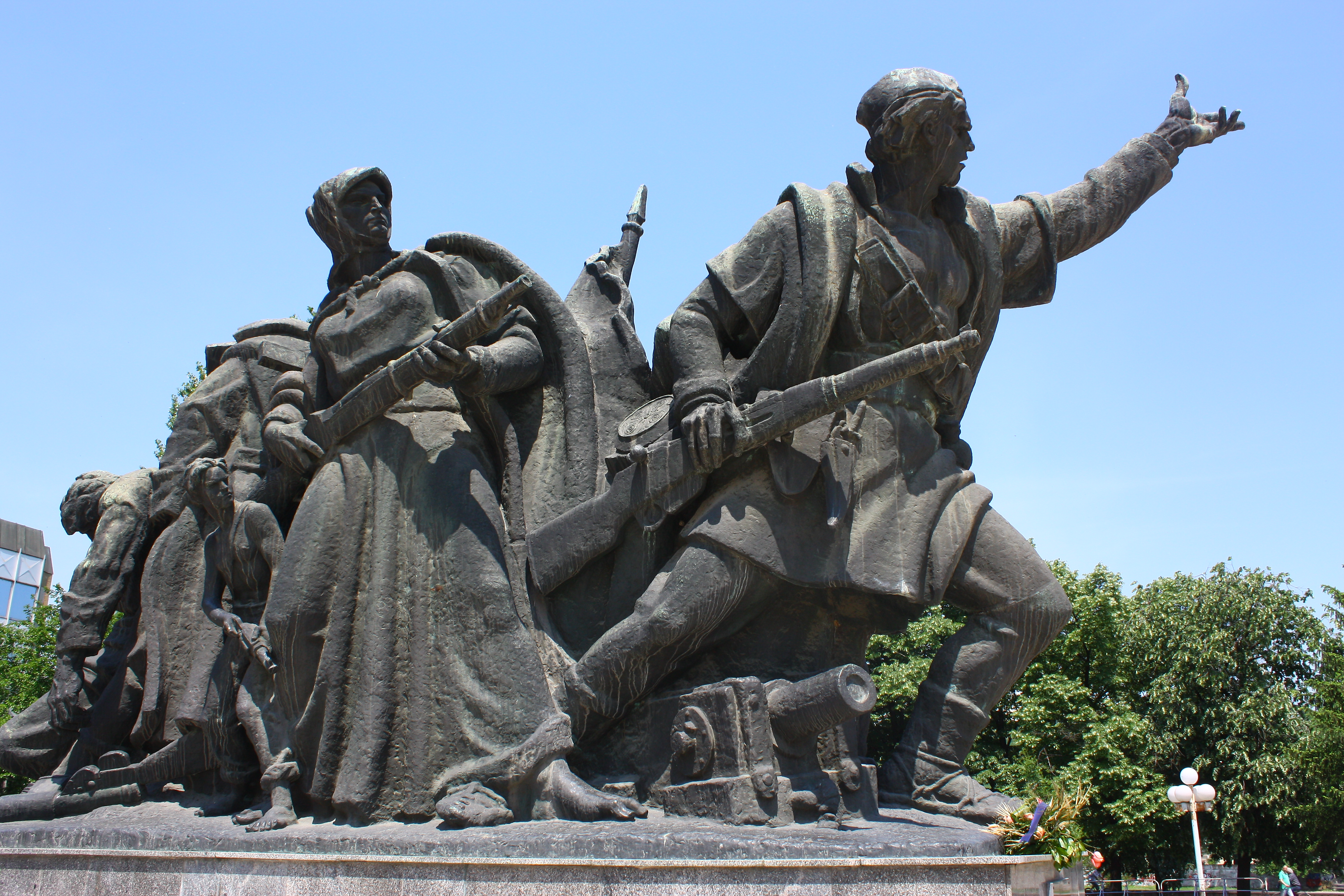 Monument of Skopje's Liberators